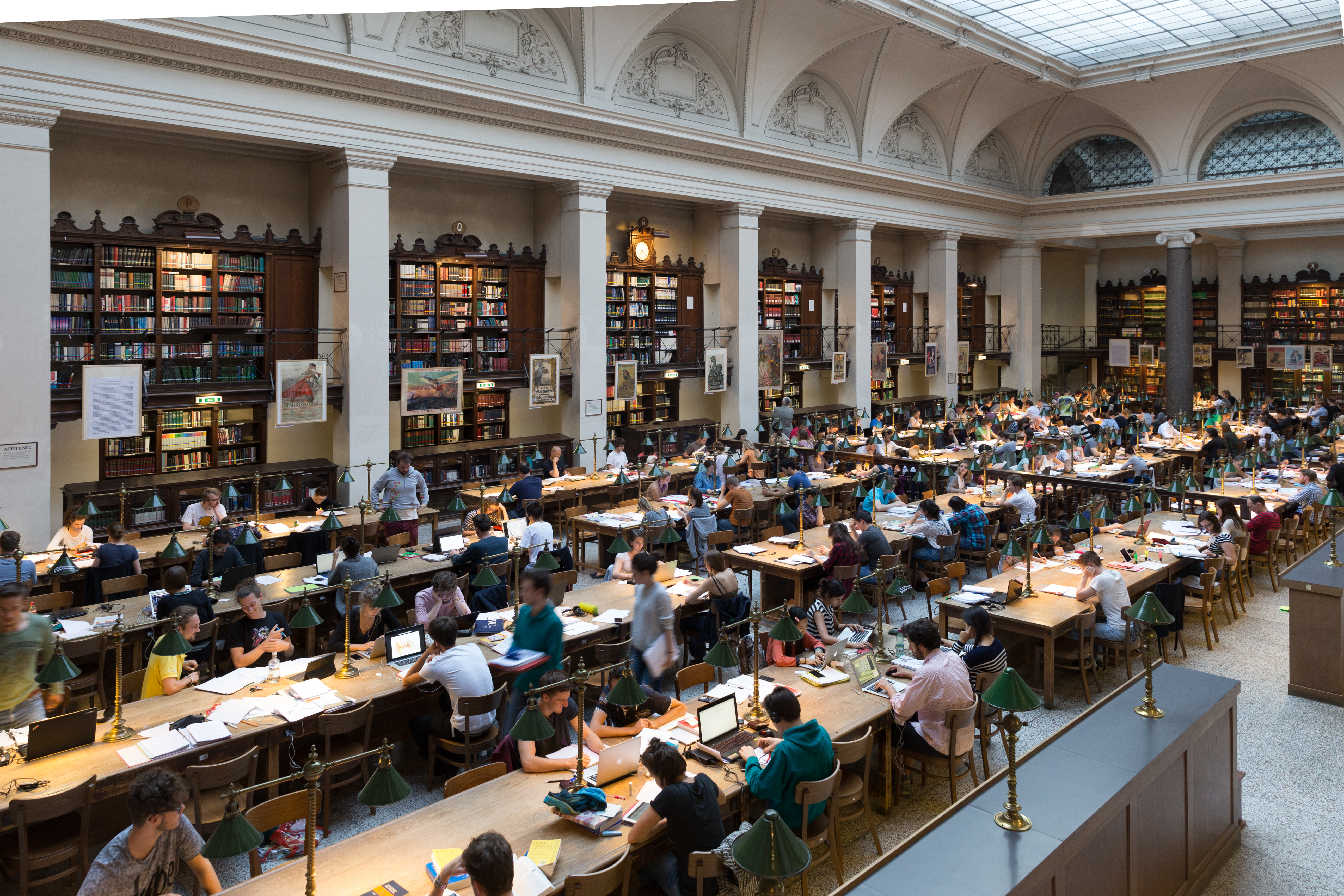 Main Library of the University of Vienna. Reading hall